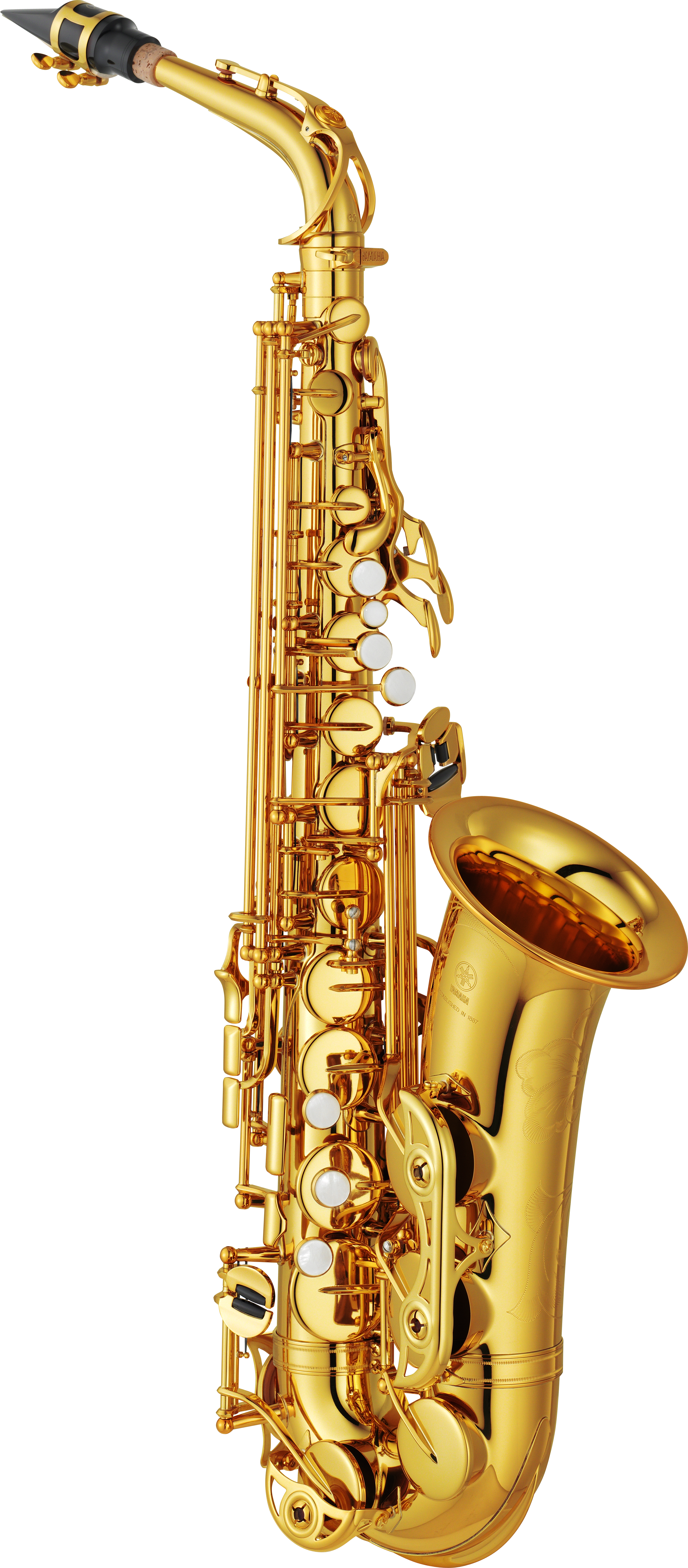 Yamaha alto saxophone, model YAS-62.